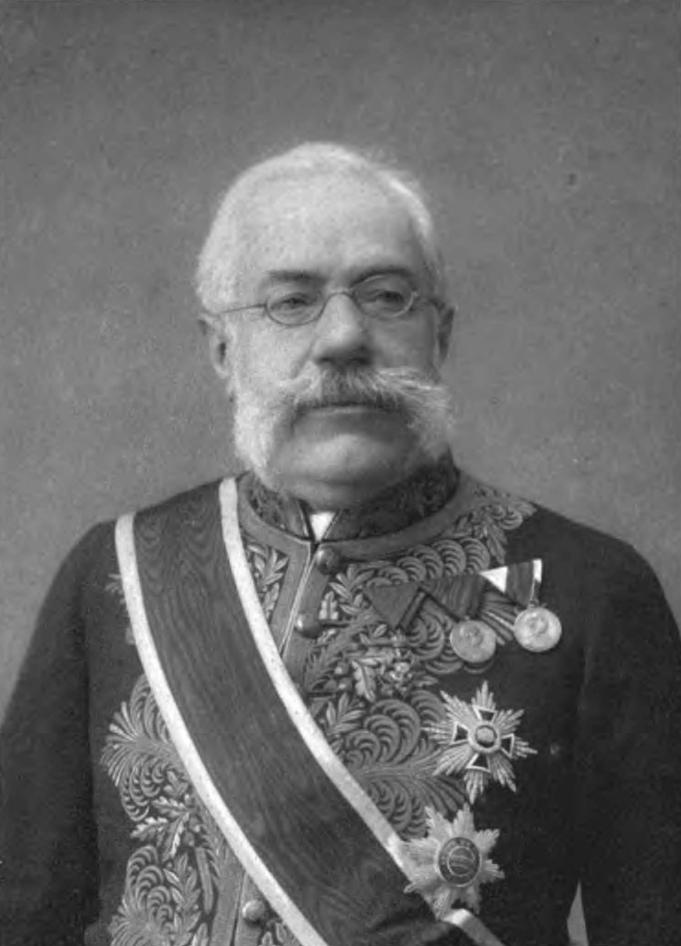 Johann Freiherr von Chlumecký (1834-1924), Austrian jurist and politician